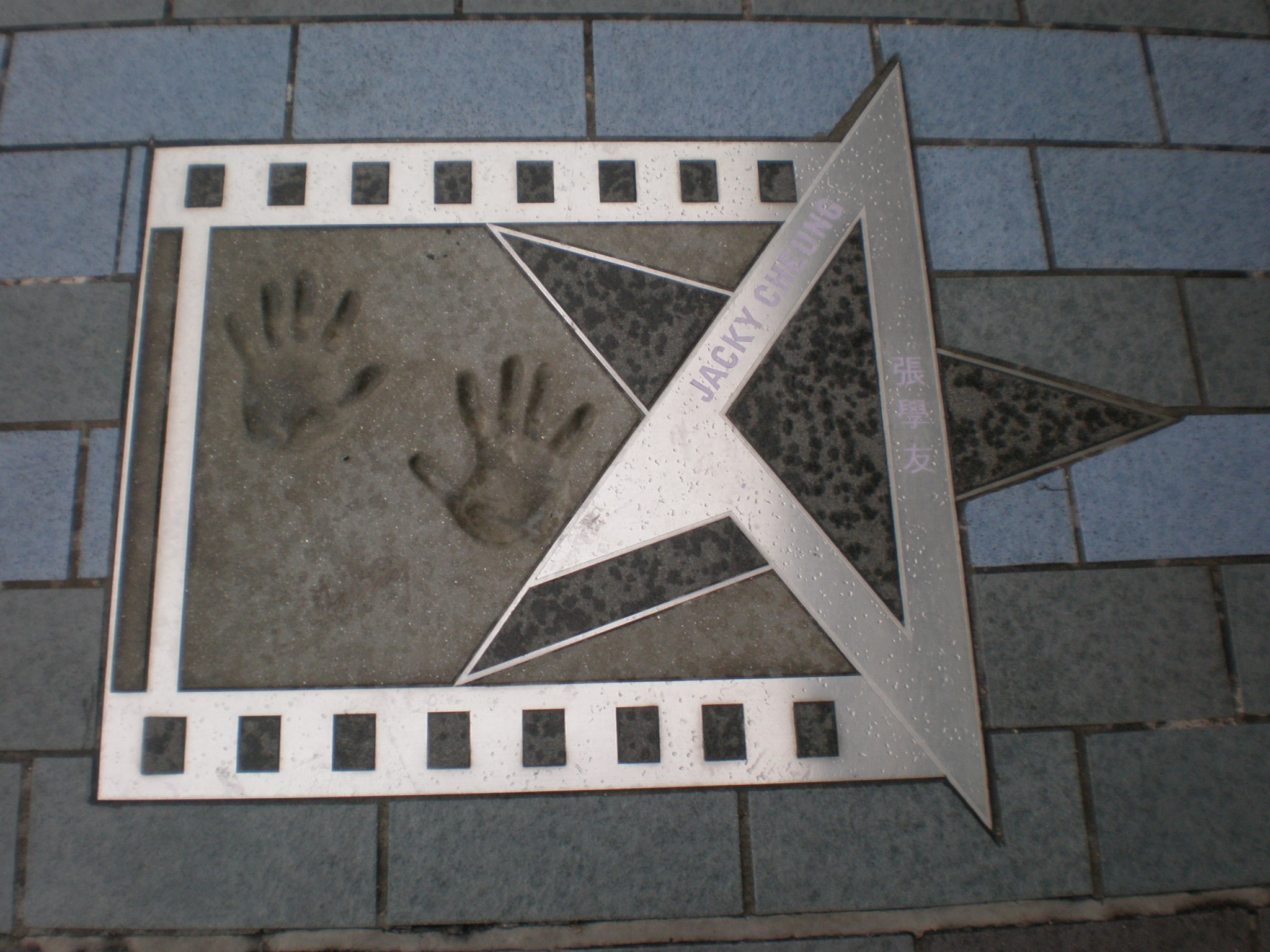 Star, hand prints and autograph of Jacky Cheung on the Avenue of Stars in Hong Kong.